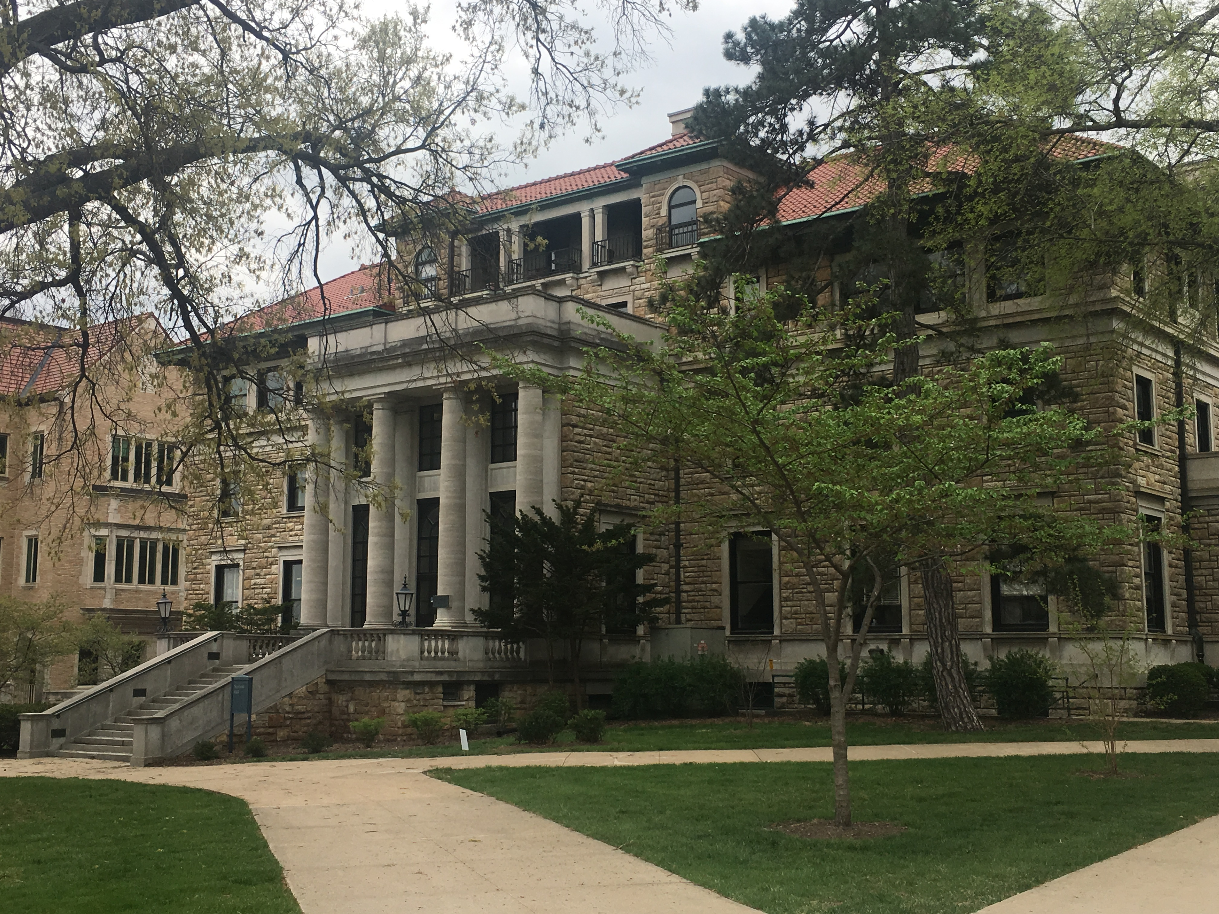 University of Missouri, Kansas City